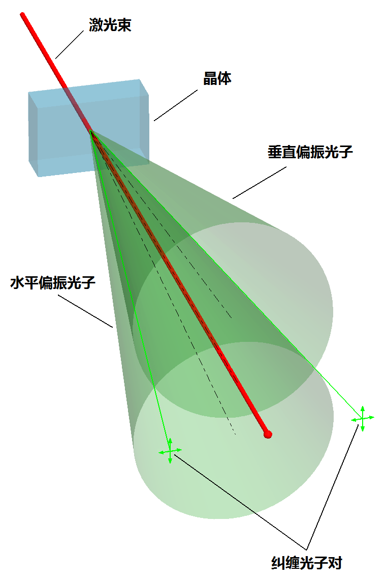 Artistic rendering of the generation of an entangled pair of photons by spontaneous parametric down-conversion as a laser beam passes through a nonlinear crystal. Original English inscriptions replaced by Chinese.